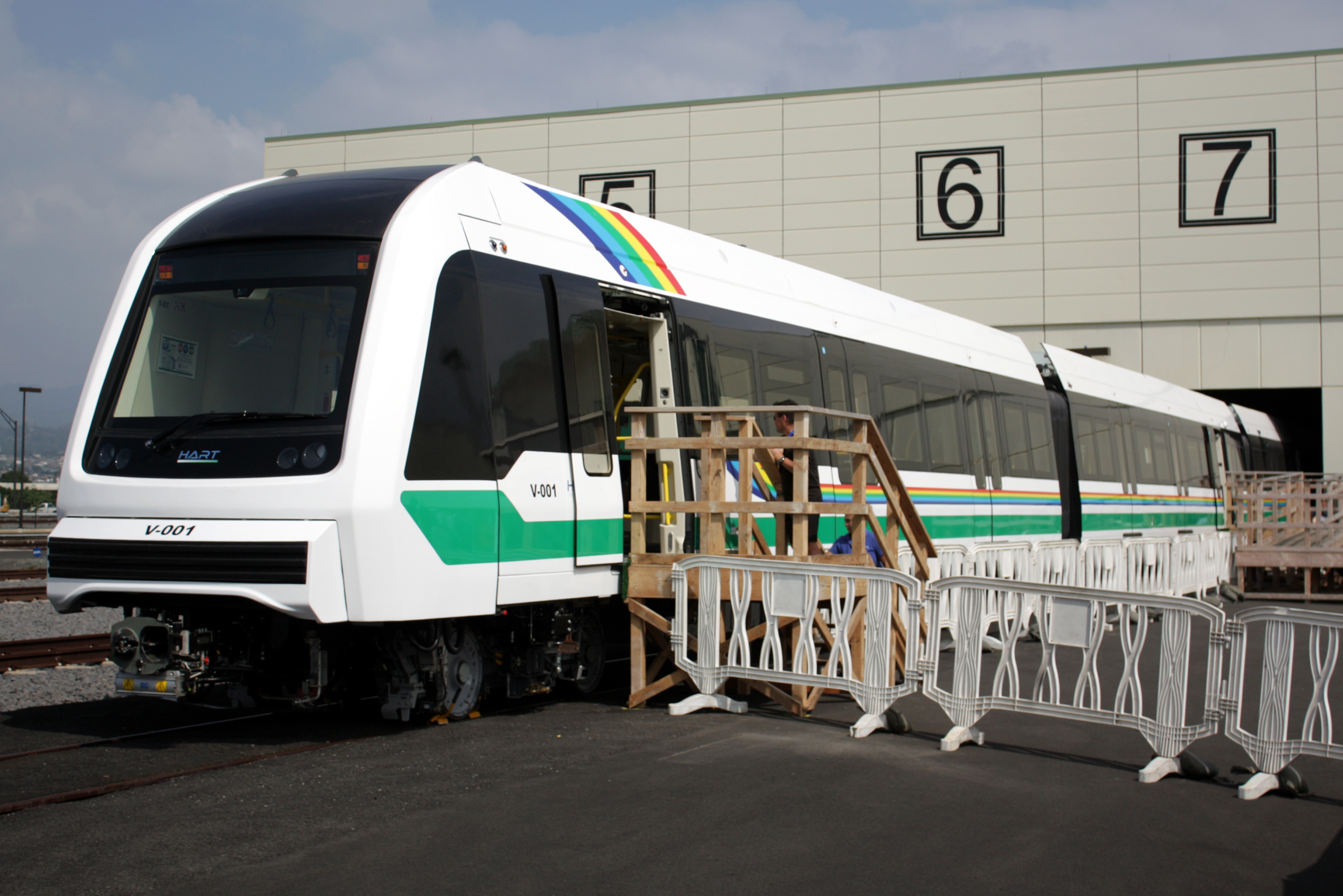 The first trainset for the Honolulu Rail Transit project on display at the HART vehicle maintenance facility in Pearl City, Hawaii